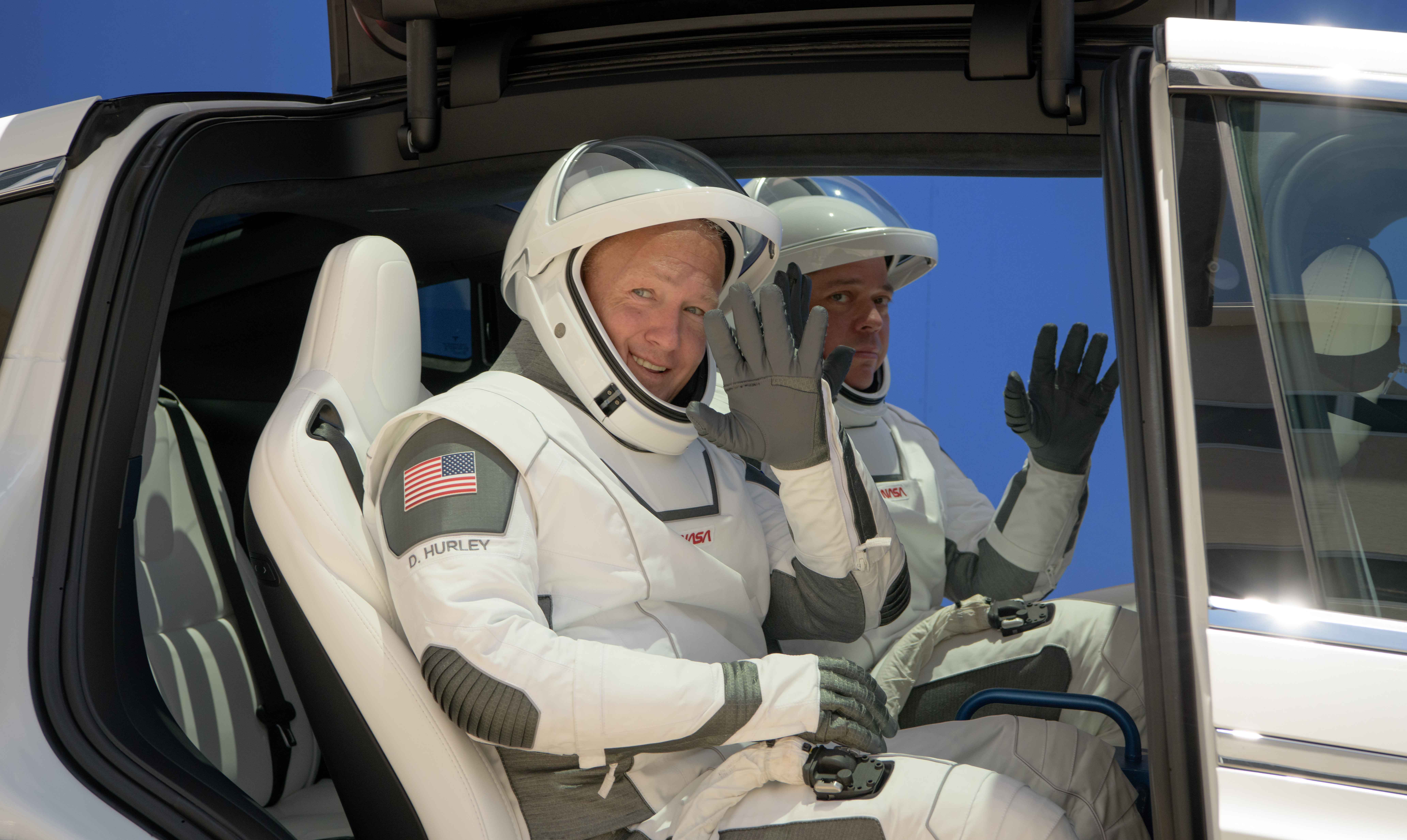 NASA astronauts Douglas Hurley, left, and Robert Behnken, wearing SpaceX spacesuits, are seen as they depart the Neil A. Armstrong Operations and Checkout Building for Launch Complex 39A during a dress rehearsal prior to the Demo-2 mission launch, Saturday, May 23, 2020, at NASA’s Kennedy Space Center in Florida. NASA’s SpaceX Demo-2 mission is the first launch with astronauts of the SpaceX Crew Dragon spacecraft and Falcon 9 rocket to the International Space Station as part of the agency’s Commercial Crew Program. The test flight serves as an end-to-end demonstration of SpaceX’s crew transportation system. Behnken and Hurley are scheduled to launch at 4:33 p.m. EDT on Wednesday, May 27, from Launch Complex 39A at the Kennedy Space Center. A new era of human spaceflight is set to begin as American astronauts once again launch on an American rocket from American soil to low-Earth orbit for the first time since the conclusion of the Space Shuttle Program in 2011. Photo Credit: (NASA/Bill Ingalls)